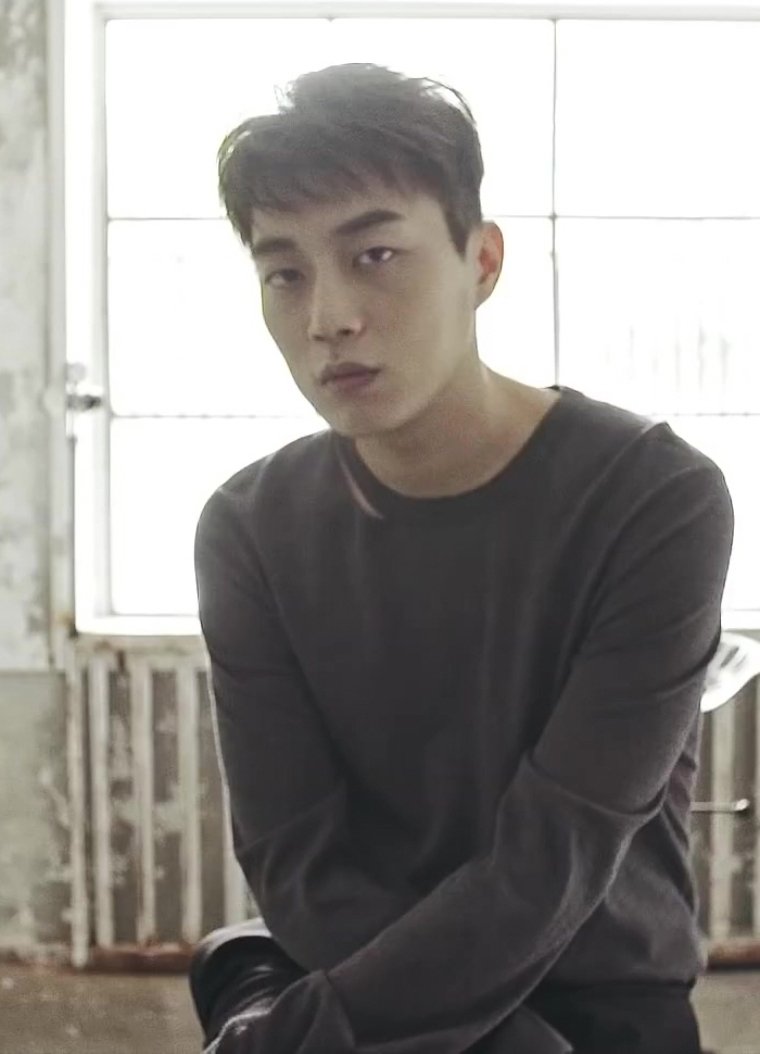 (Marie Claire Korea) BEAST is BACK!